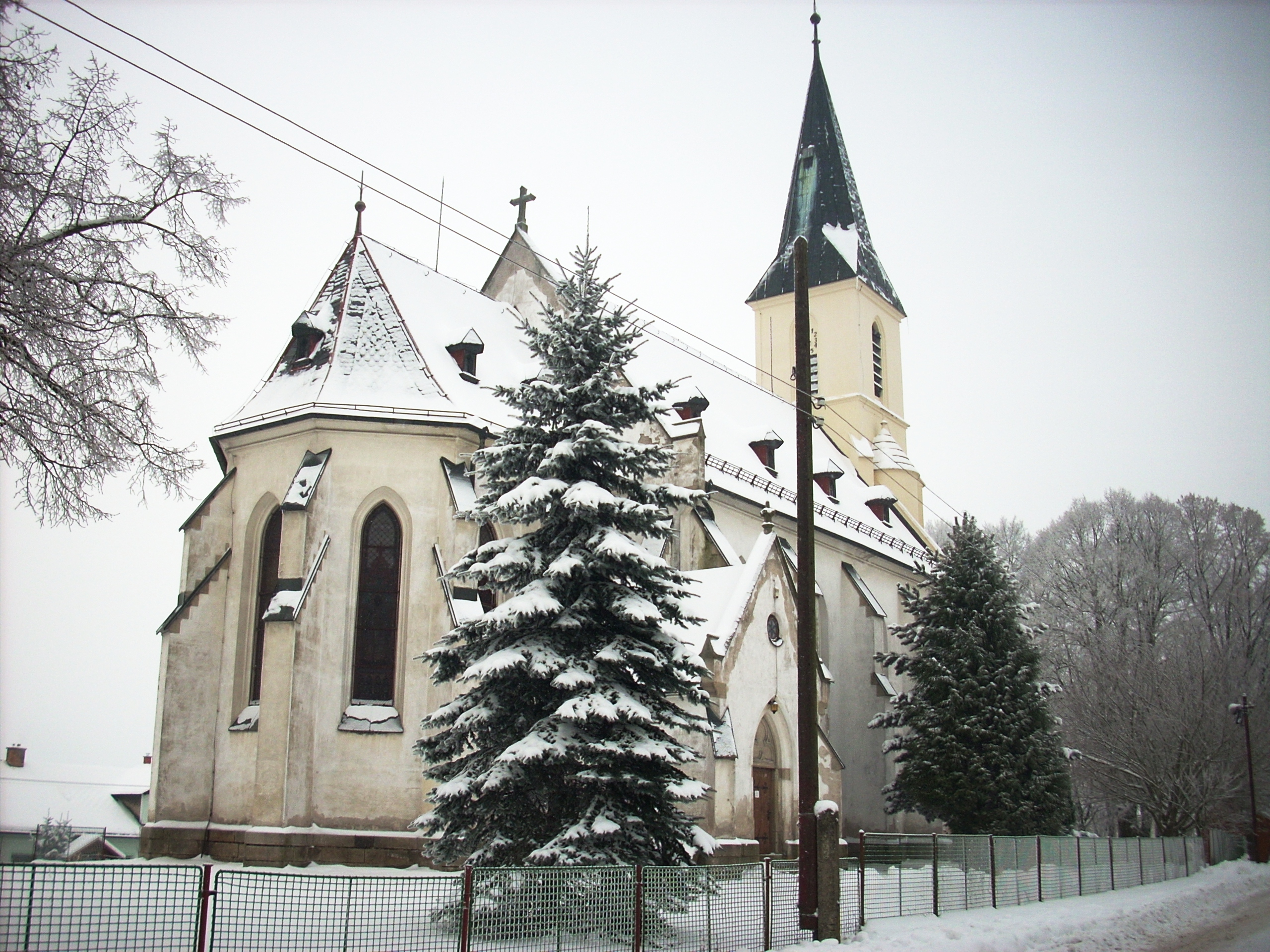 Church in Ždírec (Jihlava District) - in winter